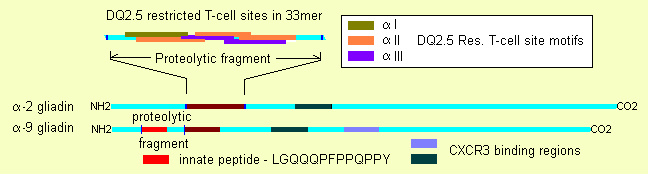 Corrected two errors in the first image that I uploaded with .PNG extension. This image shows the alpha-2 gliadin 33mer that contains 6 T-cell epitopes, when deamidated. The bottom part shows the innate epitopes on alpha-9 gliadin.